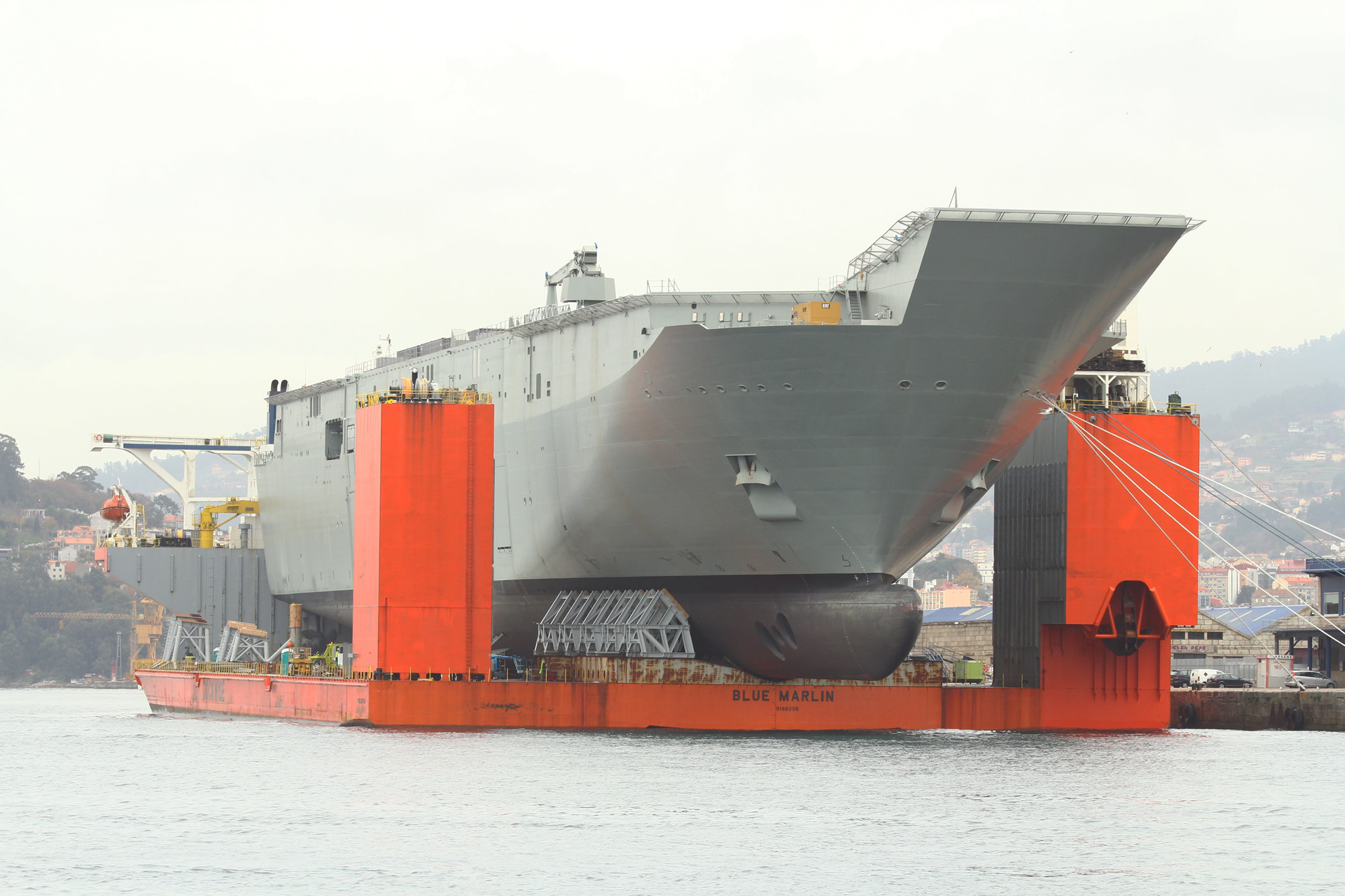 Trabajos para soldar el portaaviones HMAS Adelaide de la Real Armada Australiana sobre el buque-plataforma Blue Marlin, para trasladarlo a Australia y terminar su construcción. El Blue Marlin y su valiosa carga estarán amarrados en el muelle de transatlánticos de la Estación Marítima de Vigo hasta el 20 de diciembre, día en que zarparán hacia Australia. Vigo: Welding the aircraft carrier HMAS Adelaide of the Royal Australian Navy on the ship-platform Blue Marlin Work to weld the aircraft carrier HMAS Adelaide on ship-platform Blue Marlin, to move it to Australia and finish its construction. The Blue Marlin and its precious cargo will be moored at the pier liners of the Maritime Station of Vigo until 20 December, the day they set sail to Australia.